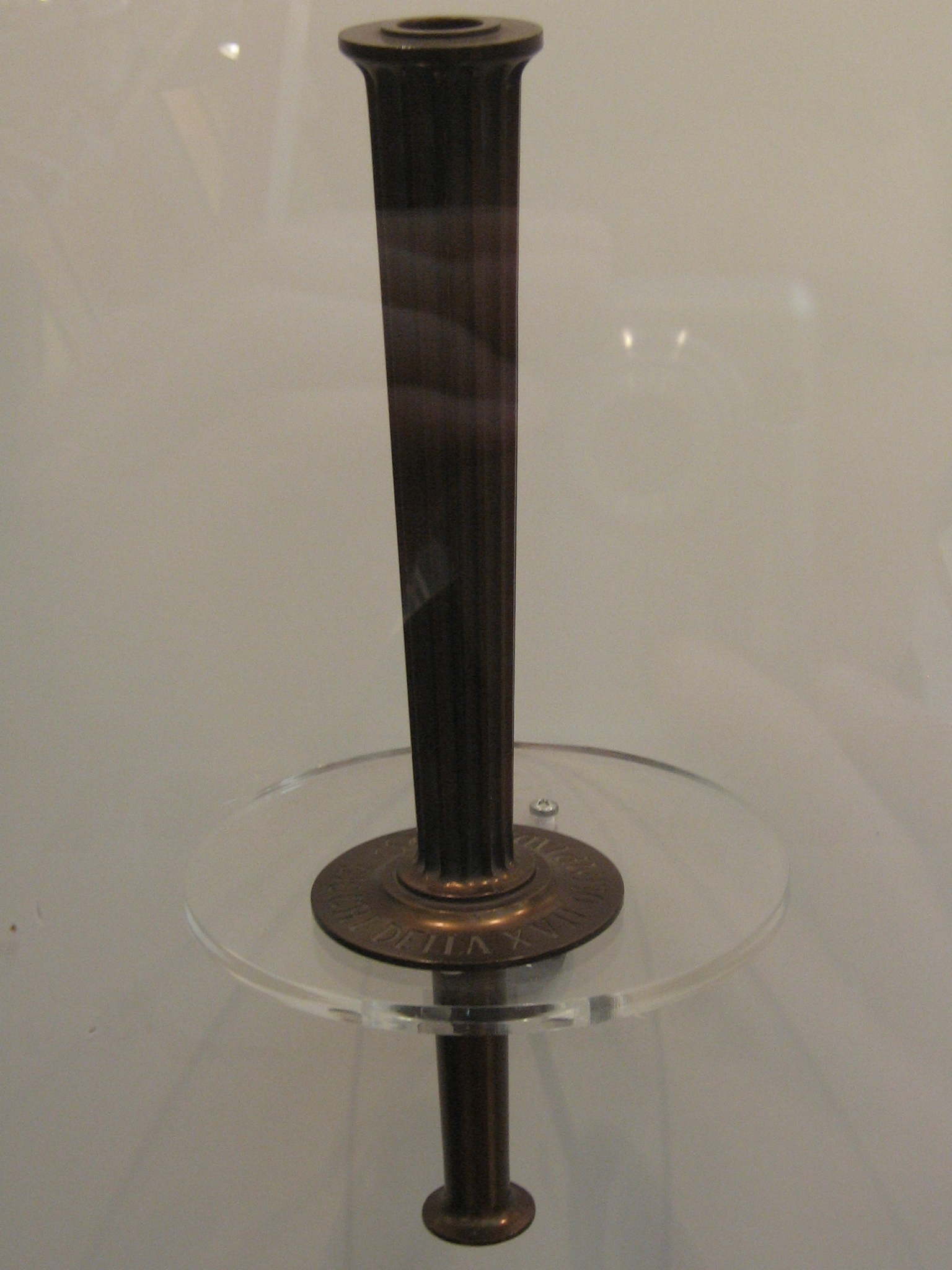 Rome 1960 olympic torch, Olympic museum Lausanne, temporary exhibition in Turin (Atrium Torino)